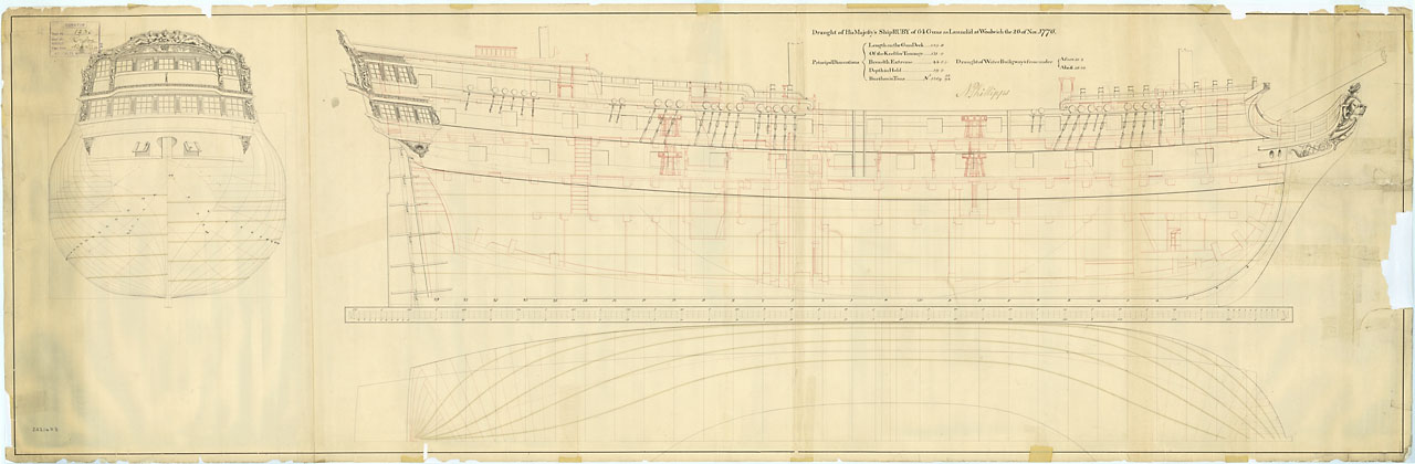 Ruby (1776) Scale: 1:48. Plan showing the body plan with stern board decoration, sheer lines with inboard detail and figurehead, and longitudinal half-breadth for Ruby (1776), 64-gun Third Rate, two-decker, as built at Woolwich Dockyard. Signed by Nicholas Phillips [Master Shipwright, Woolwich Dockyard, 1773-1778]. RUBY 1776